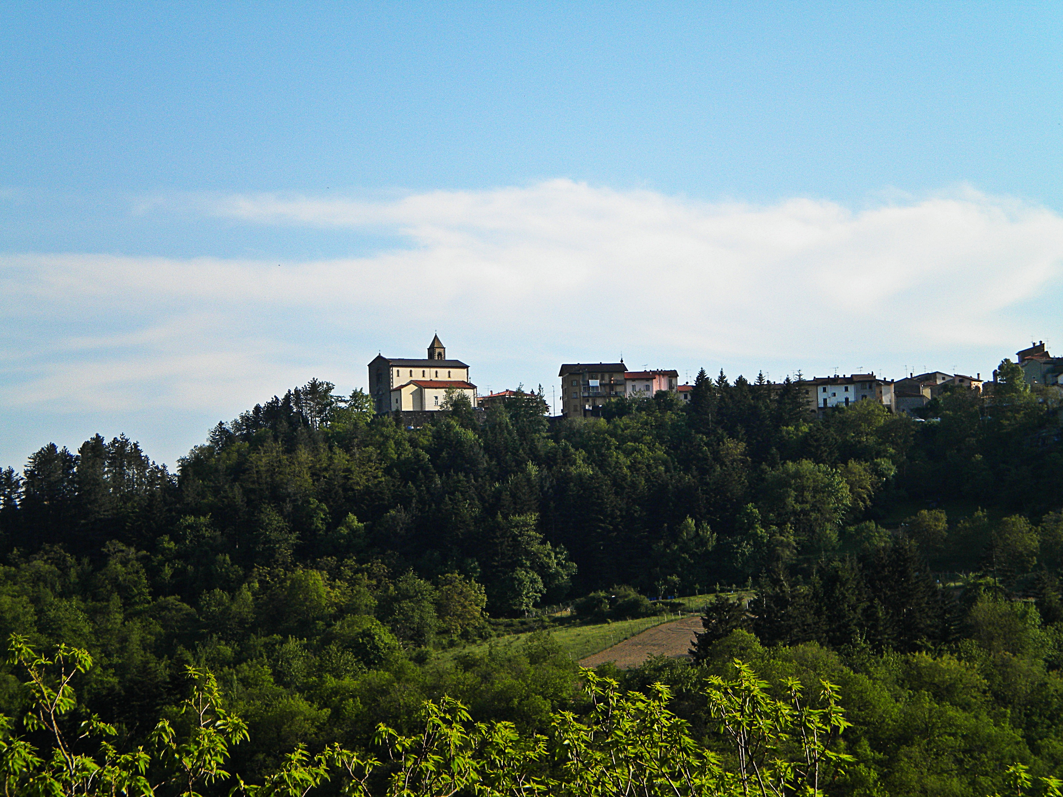 Cavarzano